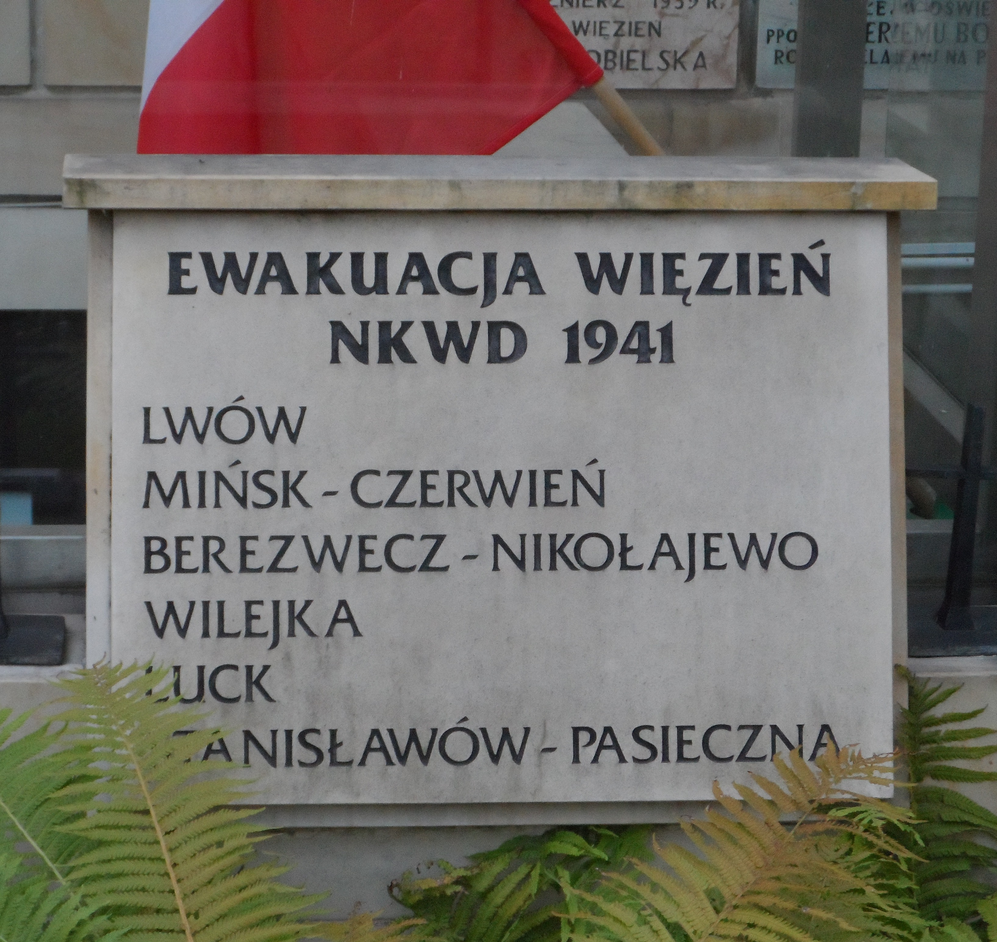 Plaque near the wall of the St. Stanislaus Kostka Church in Warsaw commemorating the victims of NKVD prisoner massacres (1941).